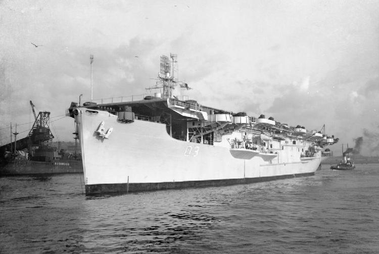 British Bogue/Ameer class escort aircraft carrier HMS RANEE at anchor.